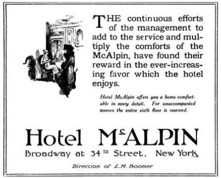 Advertisement for the Hotel McAlpin from 1920 Wellesley Alumnae Magazine